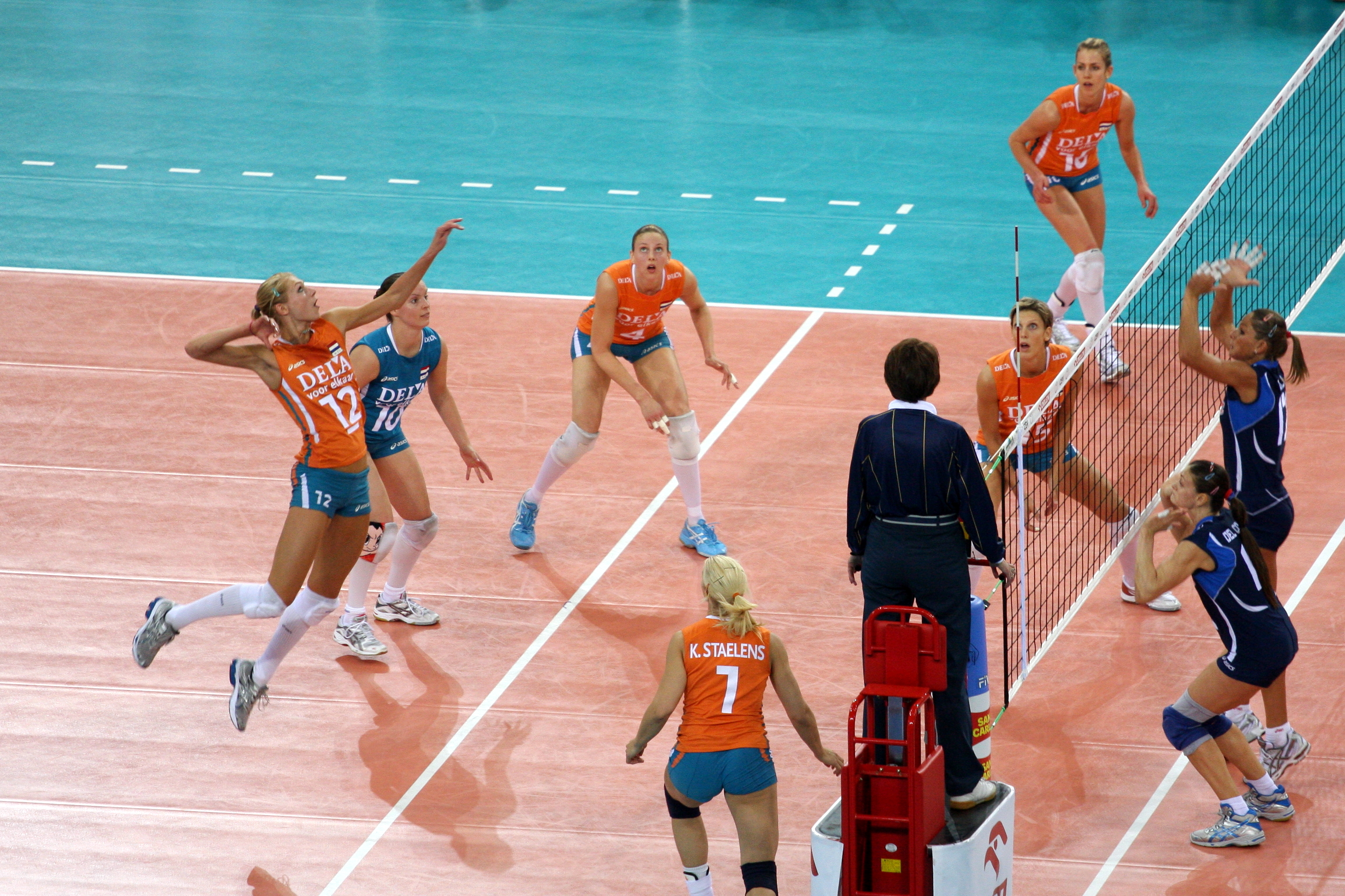 Manon Flier, Women’s European Volleyball Championships 2009